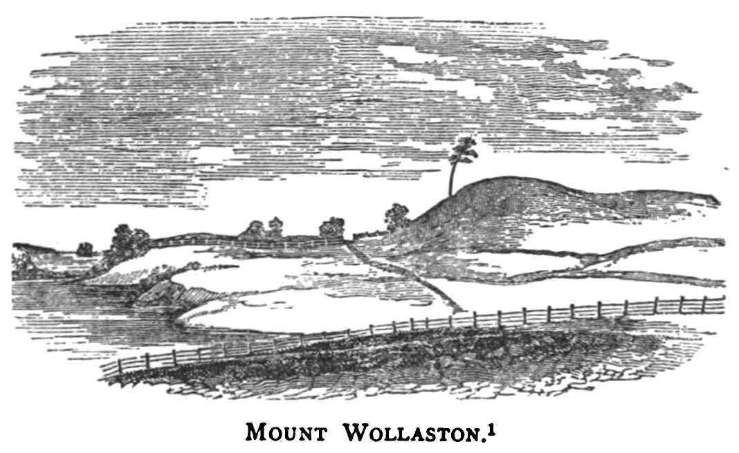 Quoting from The new English Canaan of Thomas Morton, Charles Francis Adams, Jr.. ed. (Boston, 1883): "This View of Mount Wollaston is taken from Rev. Dr. William P. Lunt's Two Discourses on Occasion of the Two Hundredth Anniversary of the First Congregational Church, Quincy, (p. 37) It represents the place very accurately as it appeared in 1840, and as it is supposed to have appeared from the time of the first settlement until recently. The single tree was a lofty red cedar. which must have been there when Wollaston landed, as it was a large tree of a long-lived species, and died from age about 1850. The trunk is still (1882) standing; and, though all the bark has dropped of, it measures some 66 inches in circumference. The central part of the above cut, including the tree, has been adopted as a seal for the town of Quincy, with the motto 'MANET'."